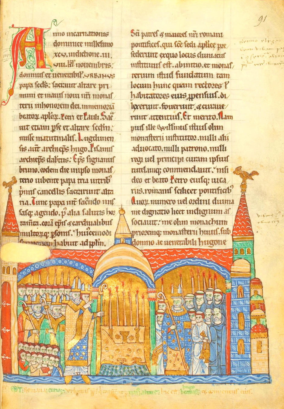 In Anwesenheit des Abtes Hugo weiht Papst Urban II. am 25. Oktober 1095 den Hauptaltar der Abtei von Cluny. Darstellung aus dem Miscellanea secundum usum ordinis Cluniacensis, 12./13. Jahrhundert. Bibliothèque nationale de France, manuscrits latin 17716, folio 91r.